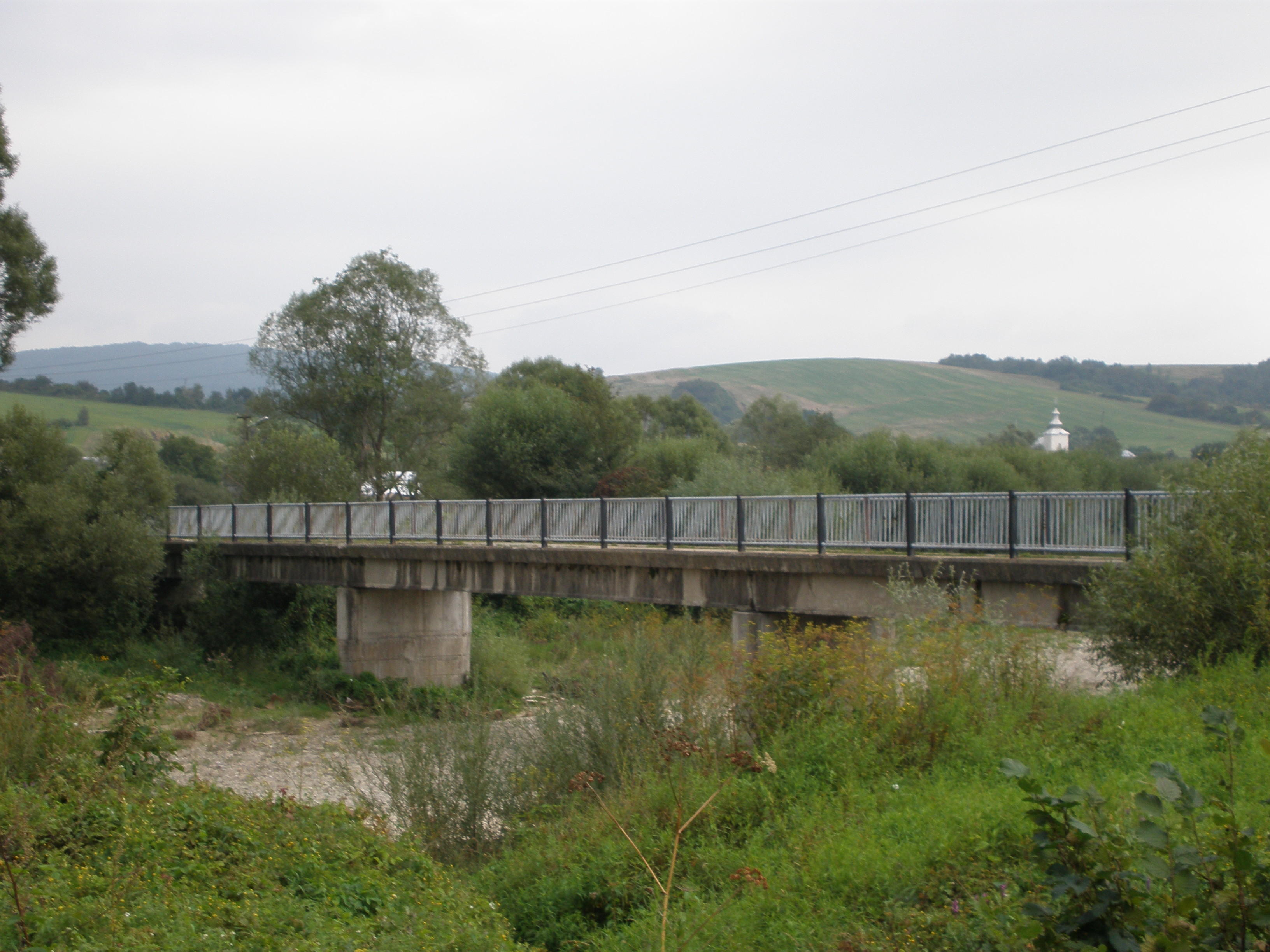 Bridge cross Laborec near Volica